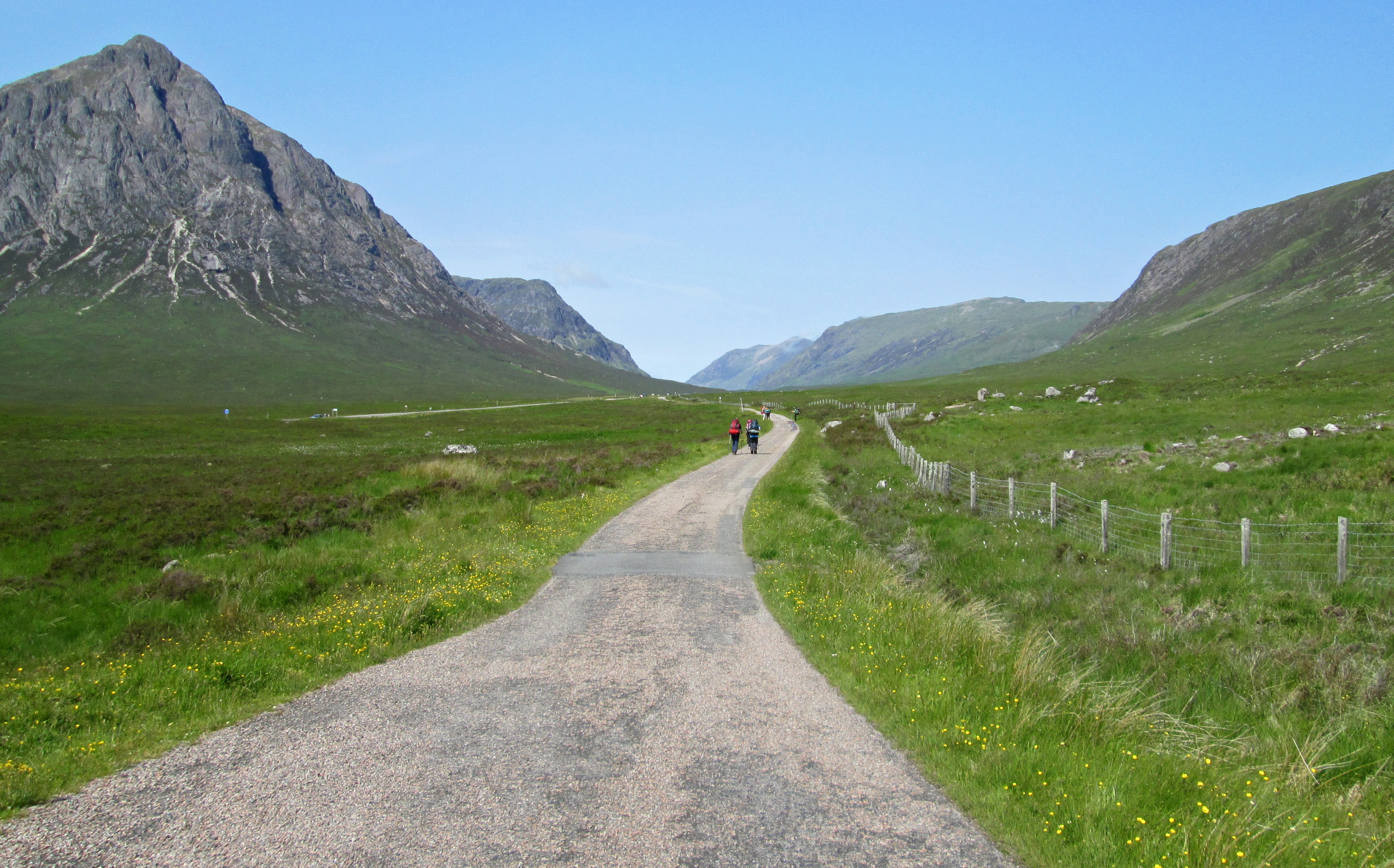 View from the old road, now the West Highland Way, at the entrance to Glen Coe, looking west, with Buachaille Etive Mòr and Buachaille Etive Beag on the left, and Aonach Eagach to the right.